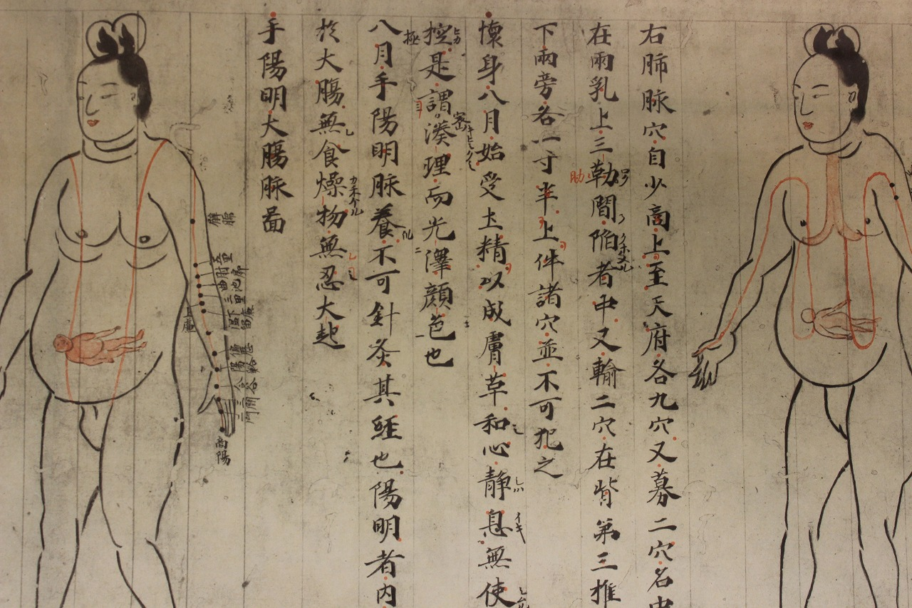 Ishinpō is the oldest surviving Japanese medical text written by Tamba Yasuyori